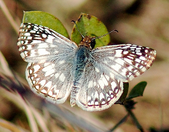 (Male) Tropical Checkered-Skipper (Pyrgus oileus -- Family: Hesperiidae). Along Turner River Rd. in the Big Cypress National Preserve, Collier Co., Florida 01/31/2007